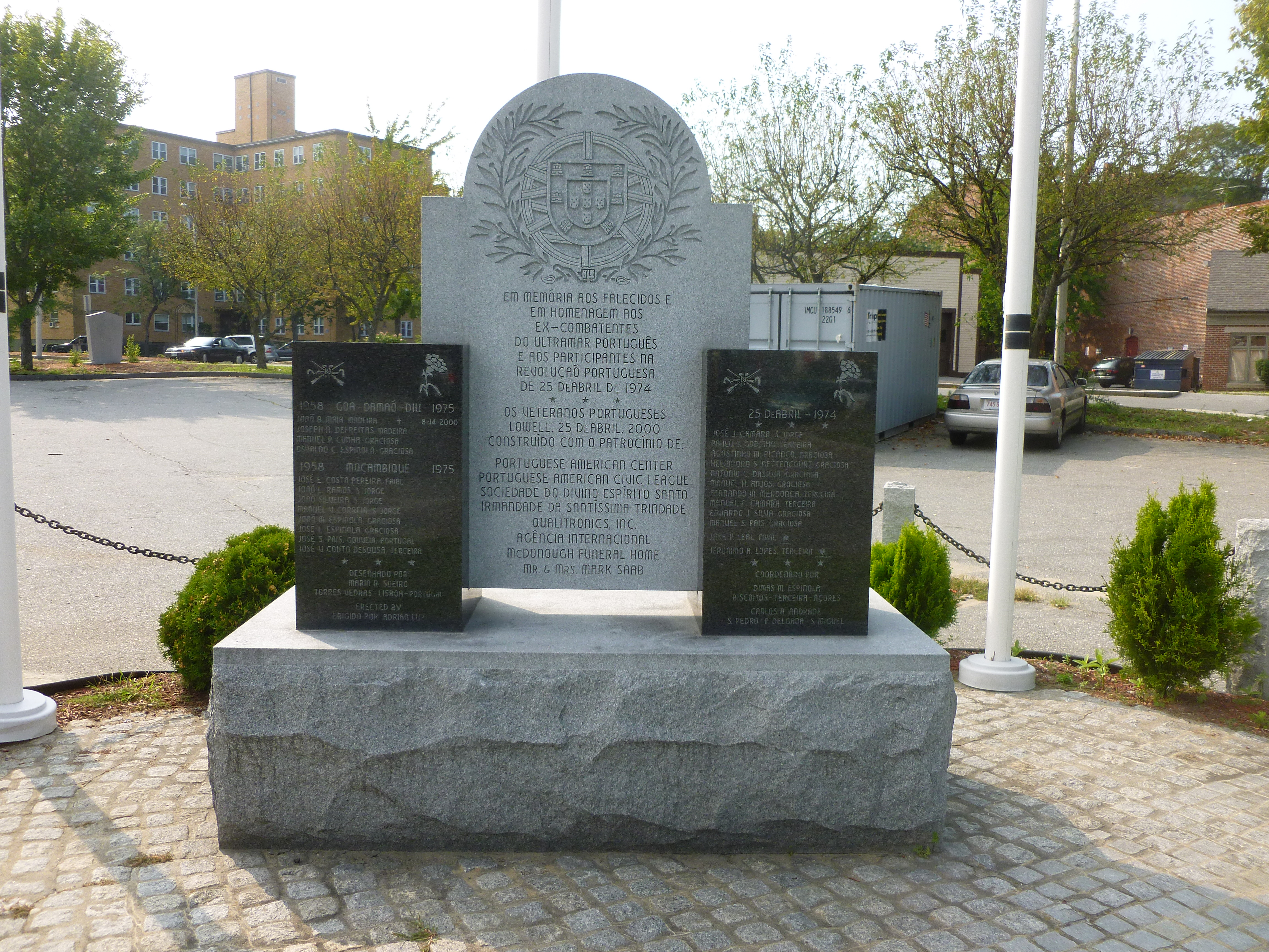 Portuguese Colonial Wars and Carnation Revolution memorial, located near the Portuguese American Center at 59 Charles Street, Lowell, Massachusetts. East (Portuguese) side of memorial shown.